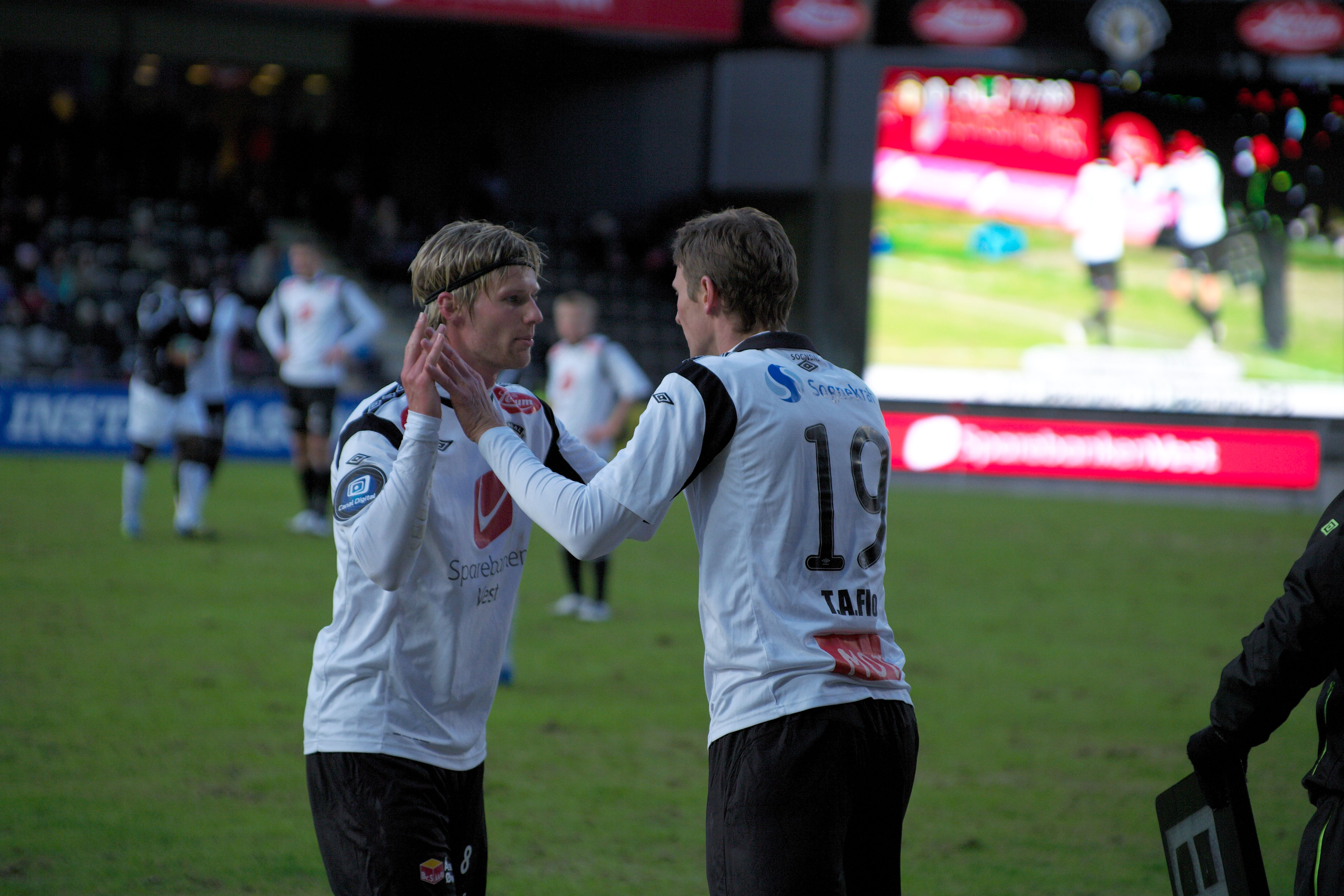 Soccer players Ulrik and Tore André Flo.